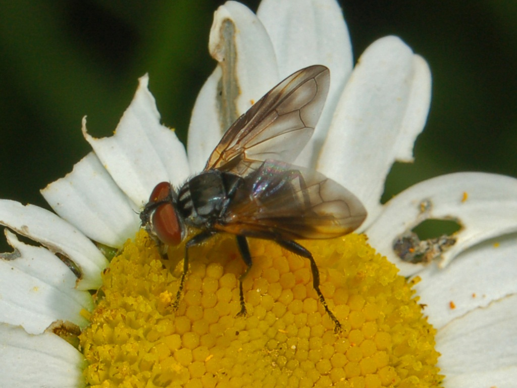 P. obesa